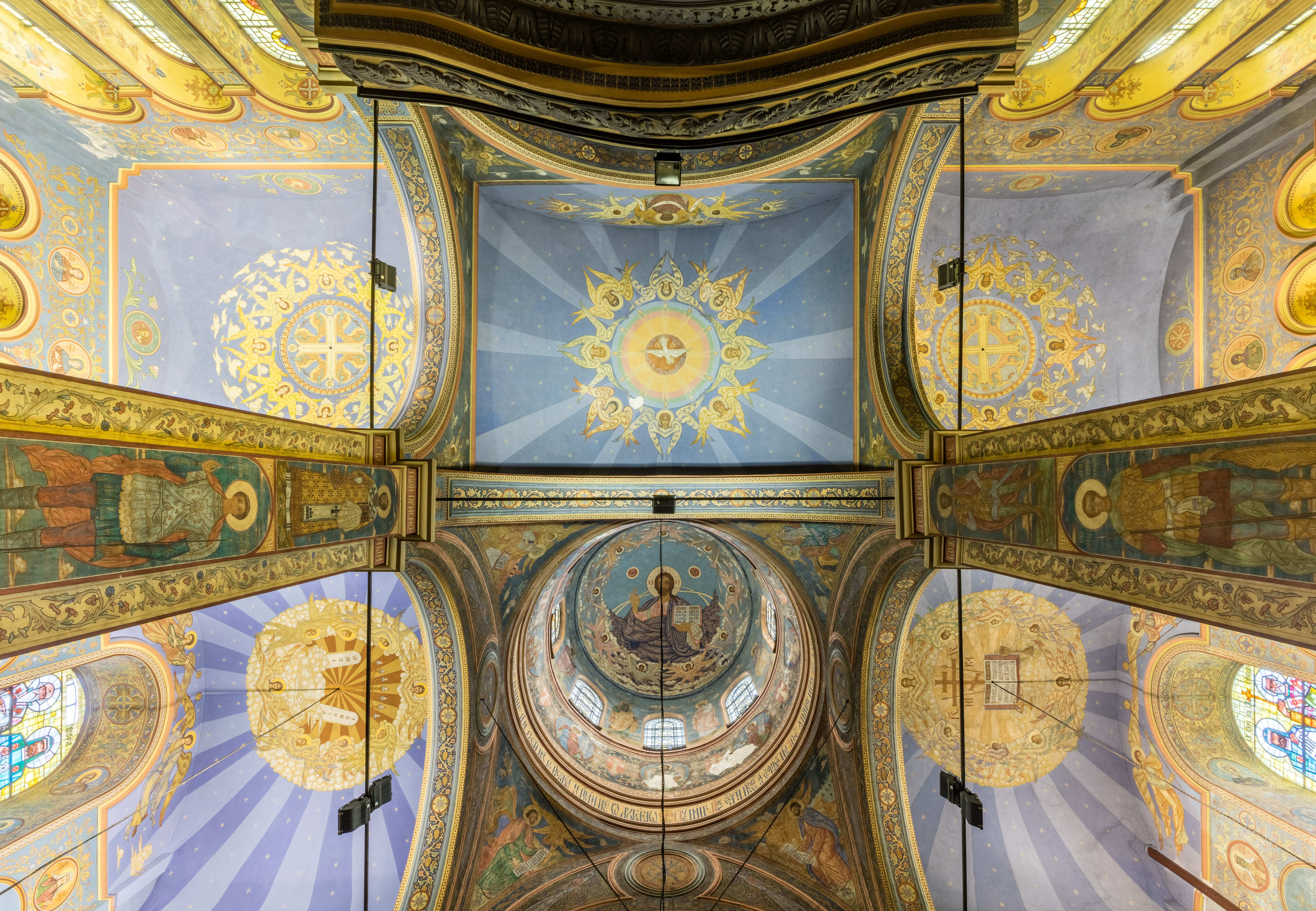 Dormition of the Theotokos Cathedral, Varna, Bulgaria. The temple is the largest and most famous Bulgarian Orthodox cathedral in the Bulgarian Black Sea port city of Varna, and the second largest in Bulgaria (after cathedral Alexander Nevski in Sofia). Officially opened in 1886, it's the residence of the bishopric of Varna and Preslav and one of the symbols of Varna.